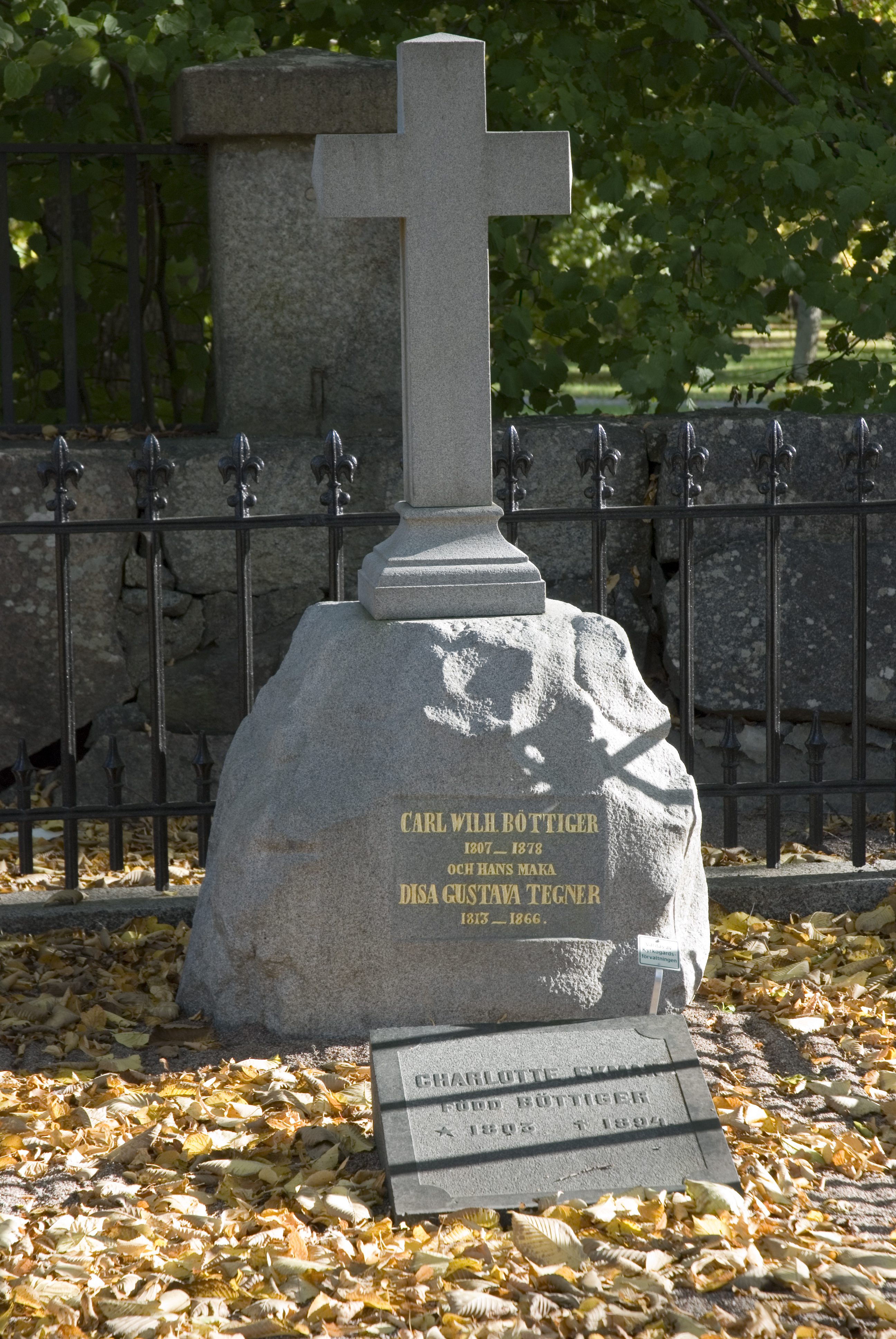 The grave of the Swedish poet Carl Wilhelm Böttiger, in Uppsala.